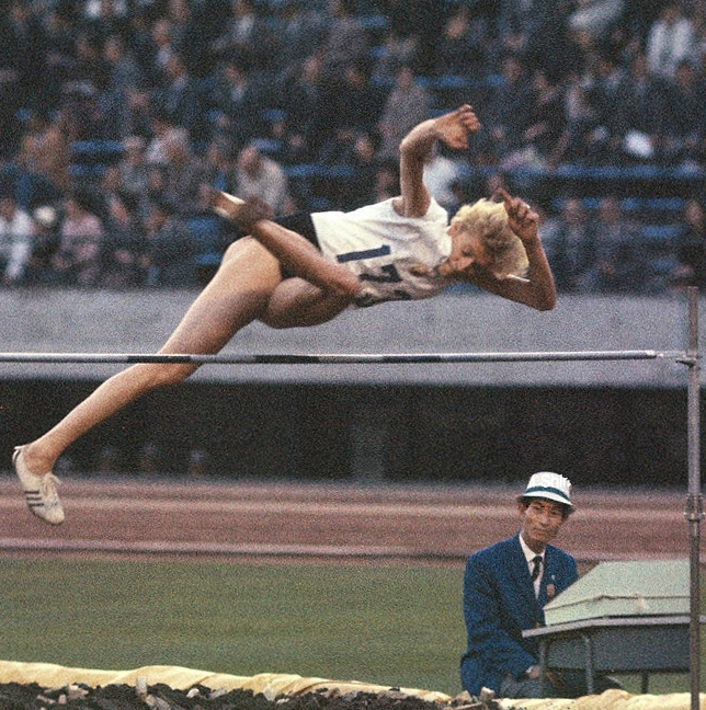 Iolanda Balaș at the 1964 OLympics